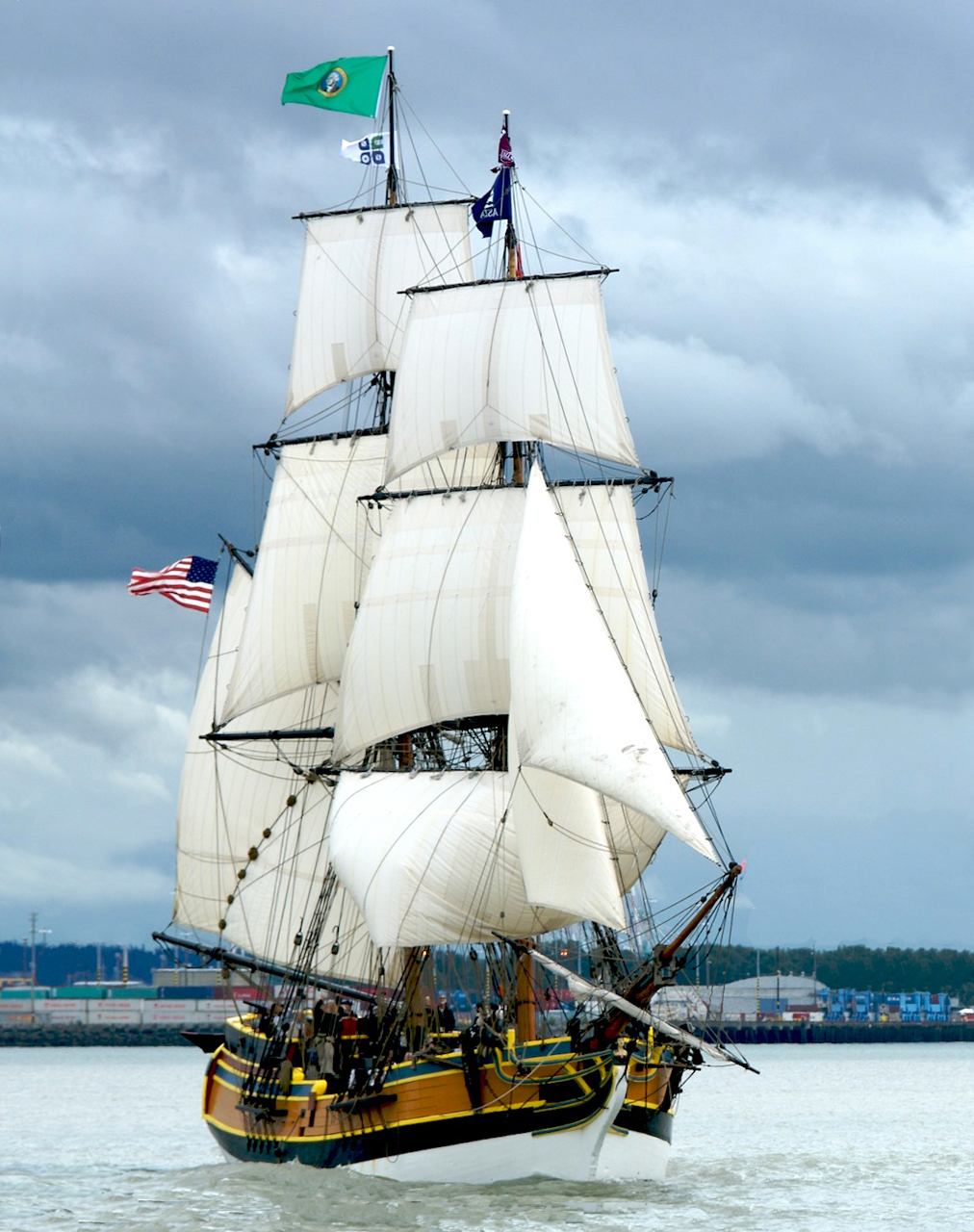 original description: The tall ship, Lady Washington, under sail in Commencement Bay near Tacoma, Washington.